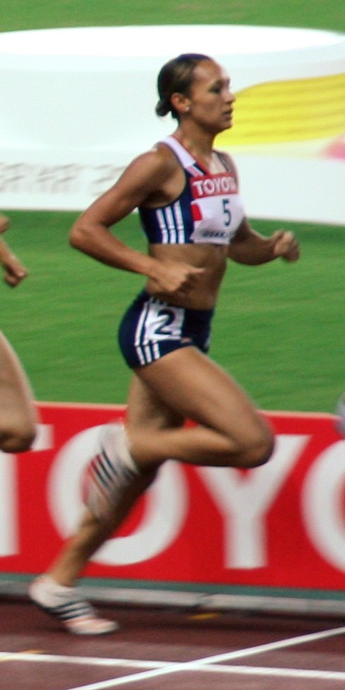 World Athletics Championships 2007 in Osaka - Jessica Ennis in the concluding 800 metres race of the women's heptathlon